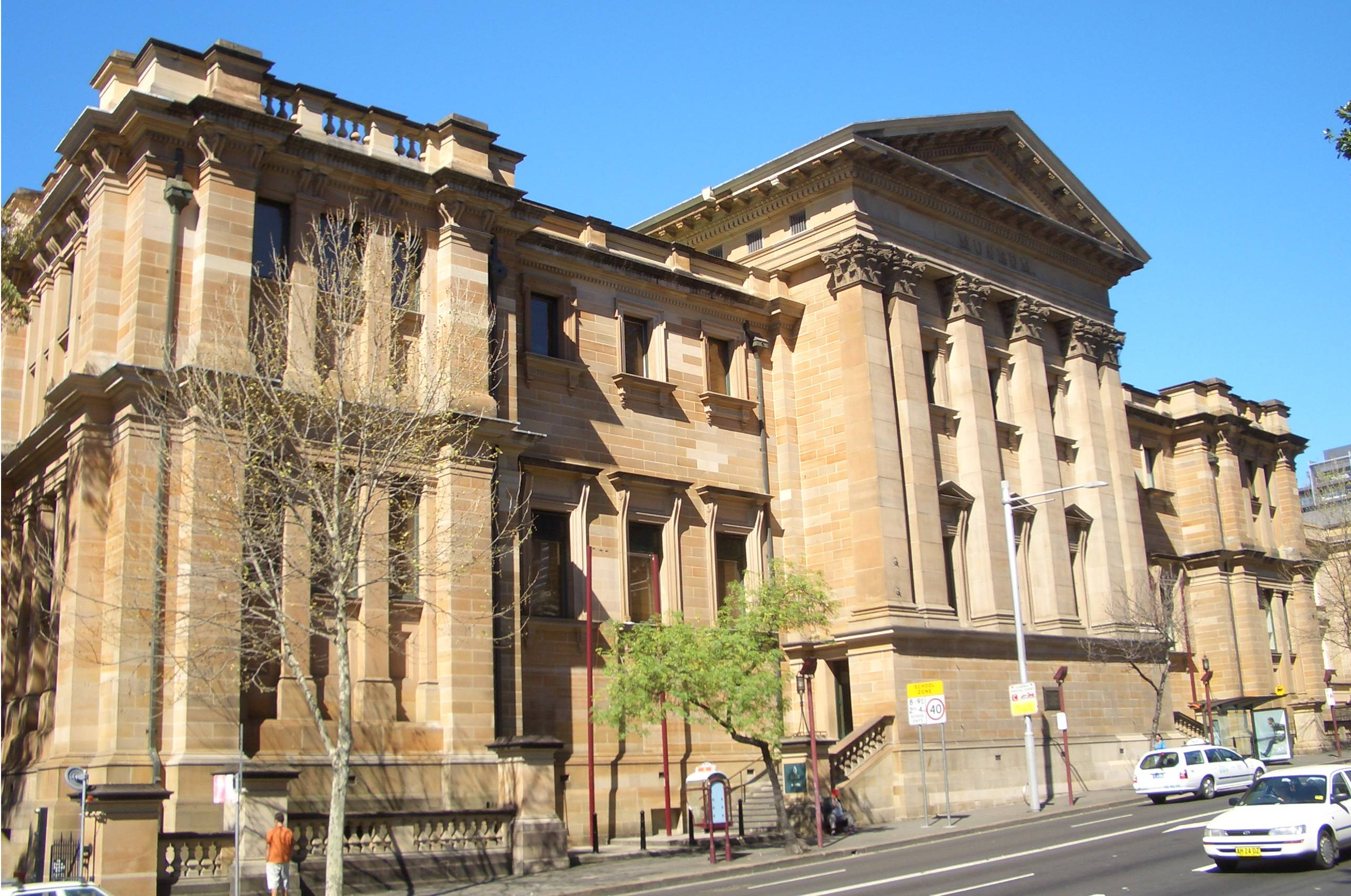 Australian Museum, College Street, Sydney, Australia. I took this photo on the 1st September 2006.